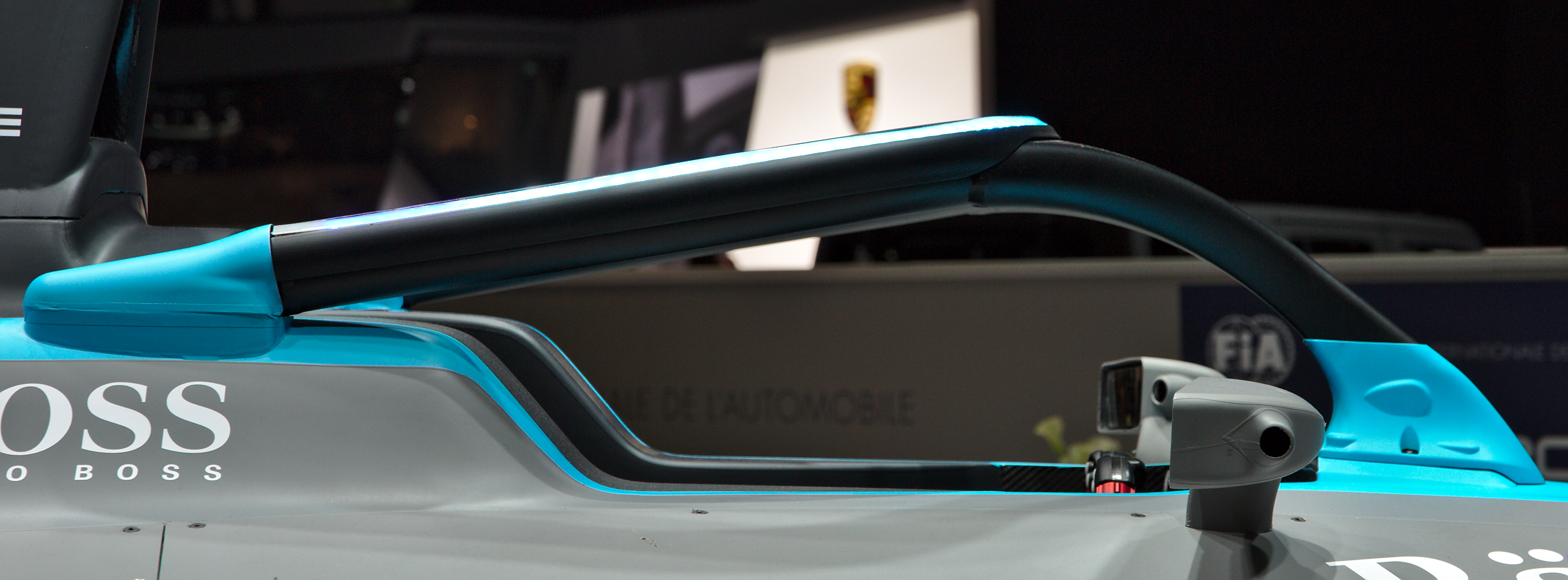 Halo System at Geneva Motorshow 2018